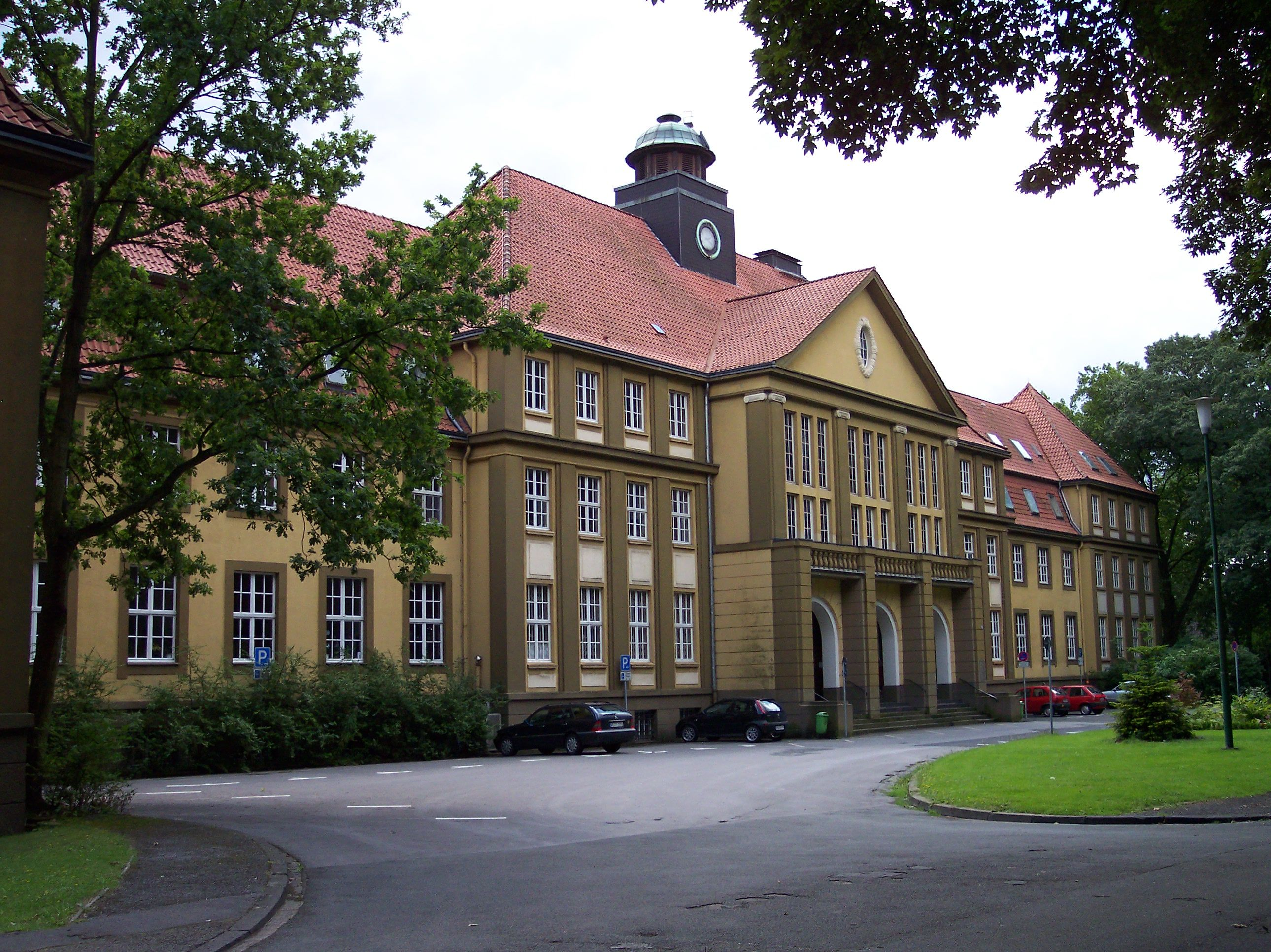 Datteln Rathaus